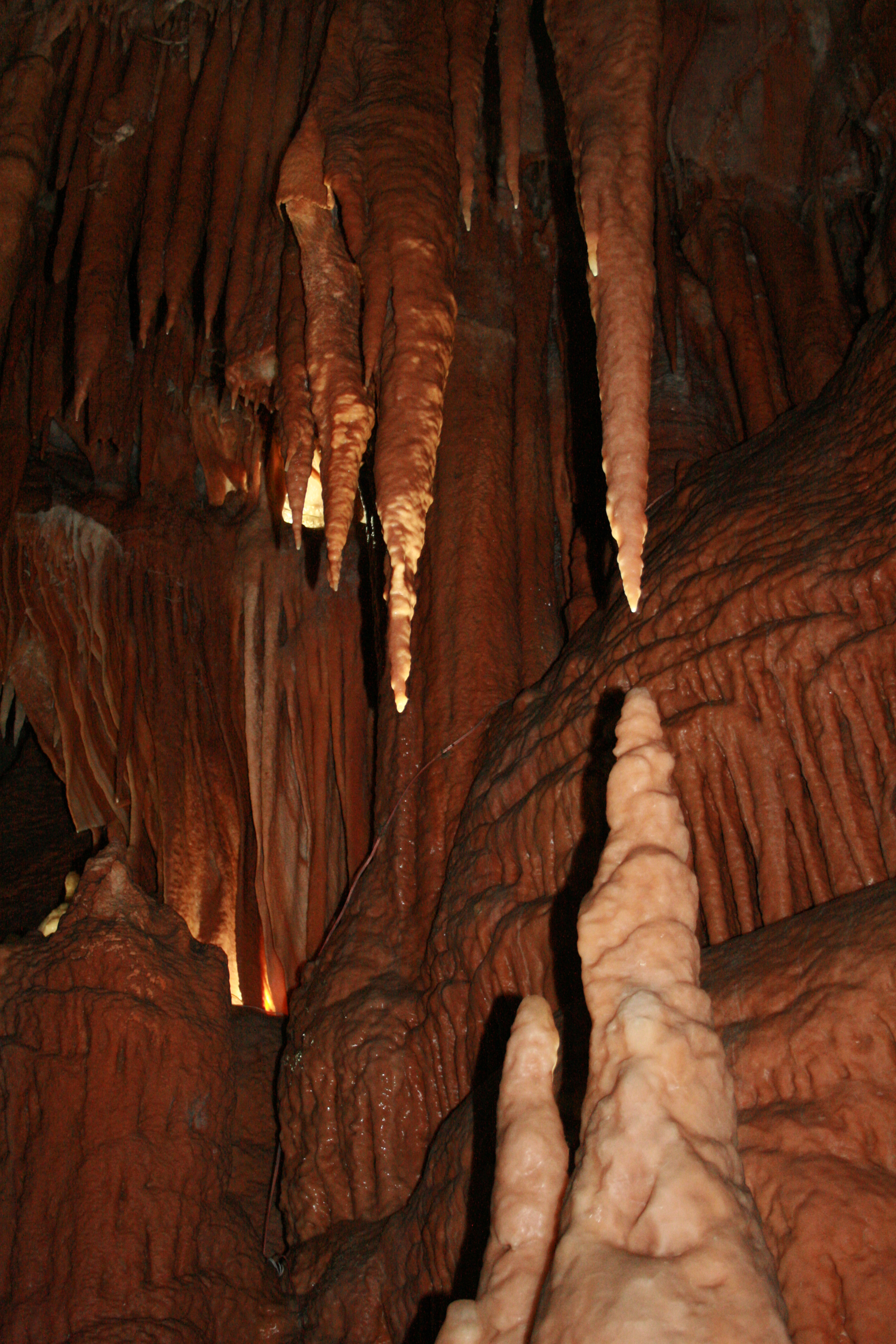 Limestone formations in the Orient Cave at Jenolan Caves, NSW, Australia.